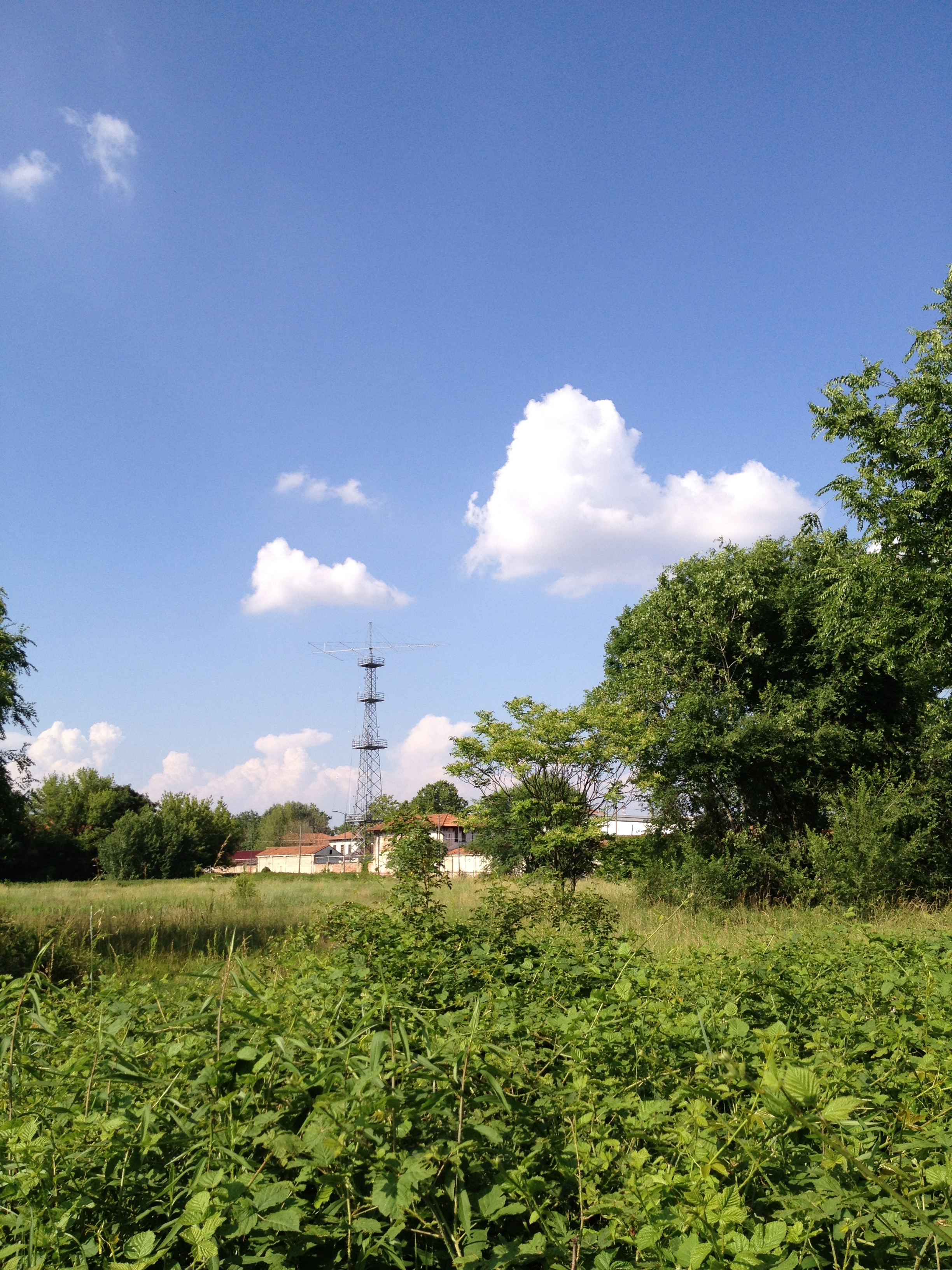 New public park under costruction in Baggio, Milan, Italy